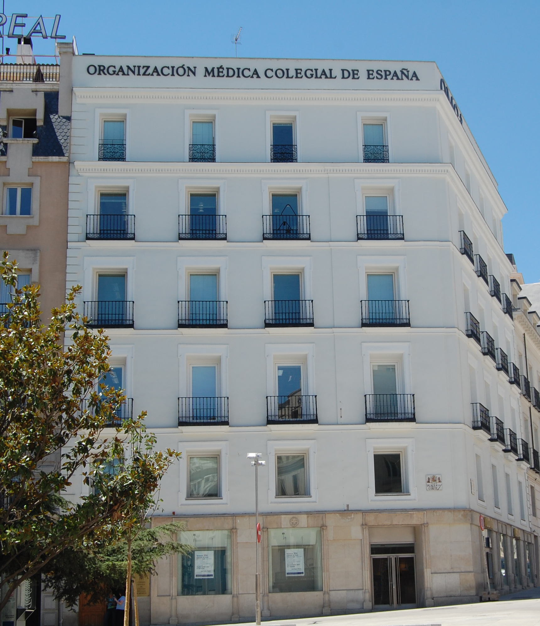 The Spanish Medical Colleges Organization